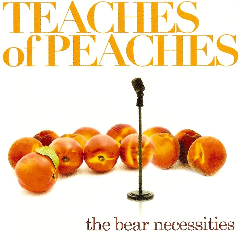 The Bear Necessities TEACHES OF PEACHES Front Cover